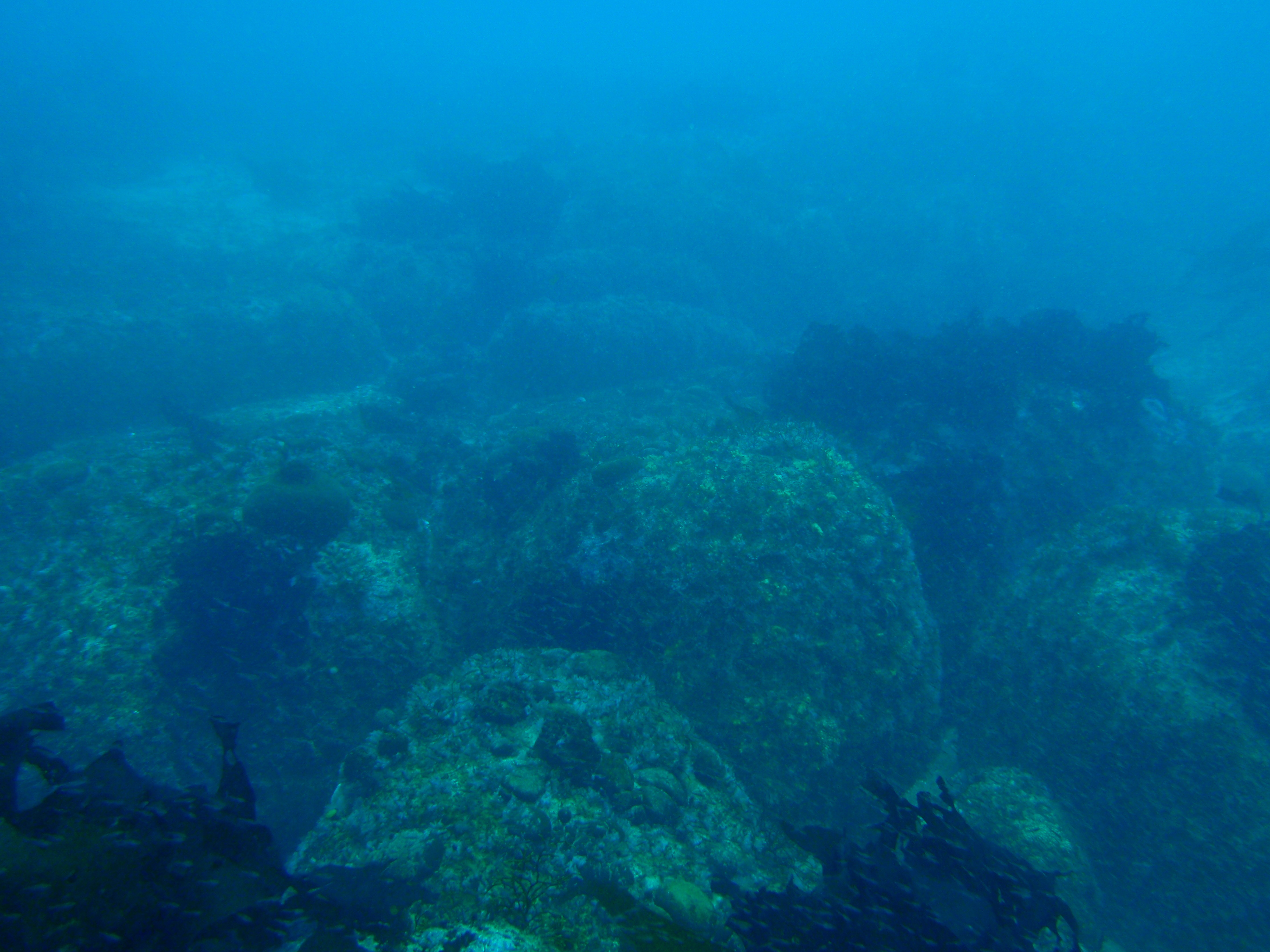 The deeper reef to the west of Geldkis blinder, Oudekraal.